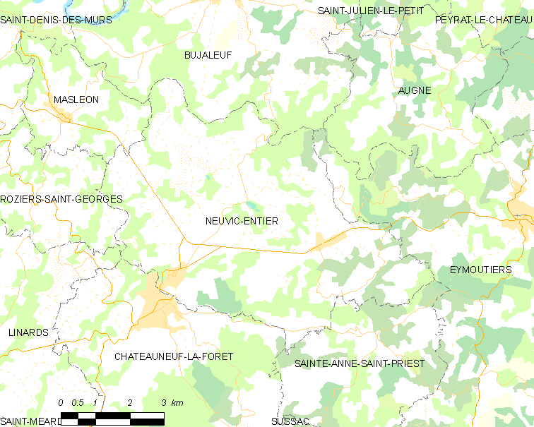 Map of French municipality Neuvic-Entier